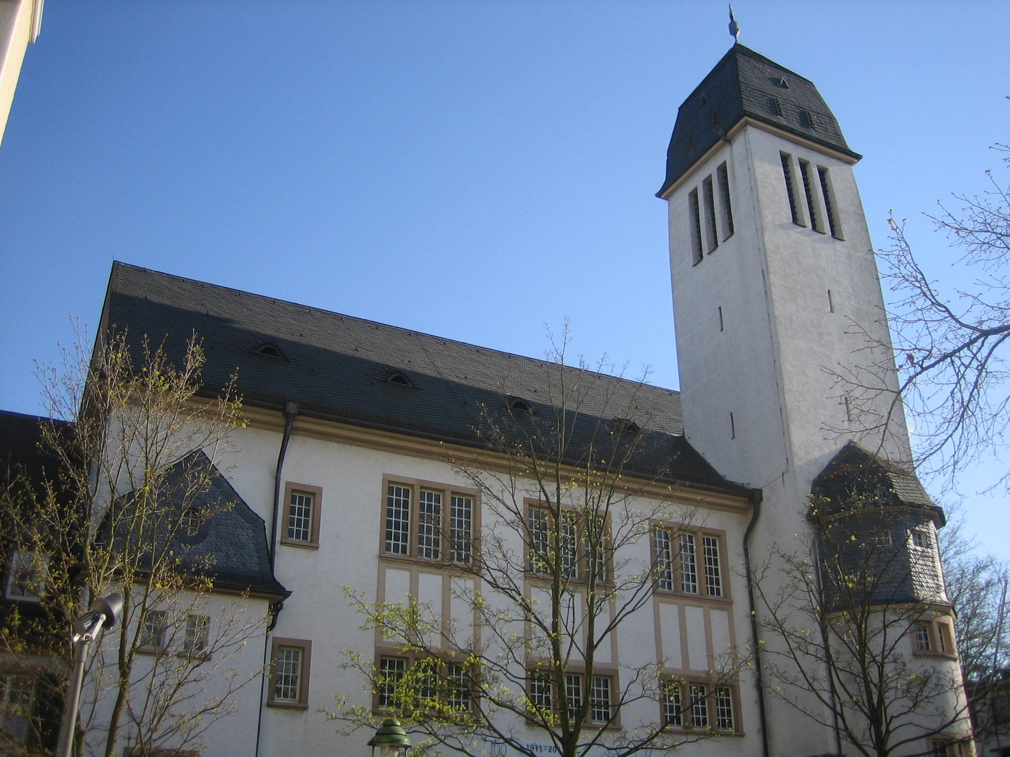 Cultural heritage monument Friedenskirche in Mainz-Mombach, view from north